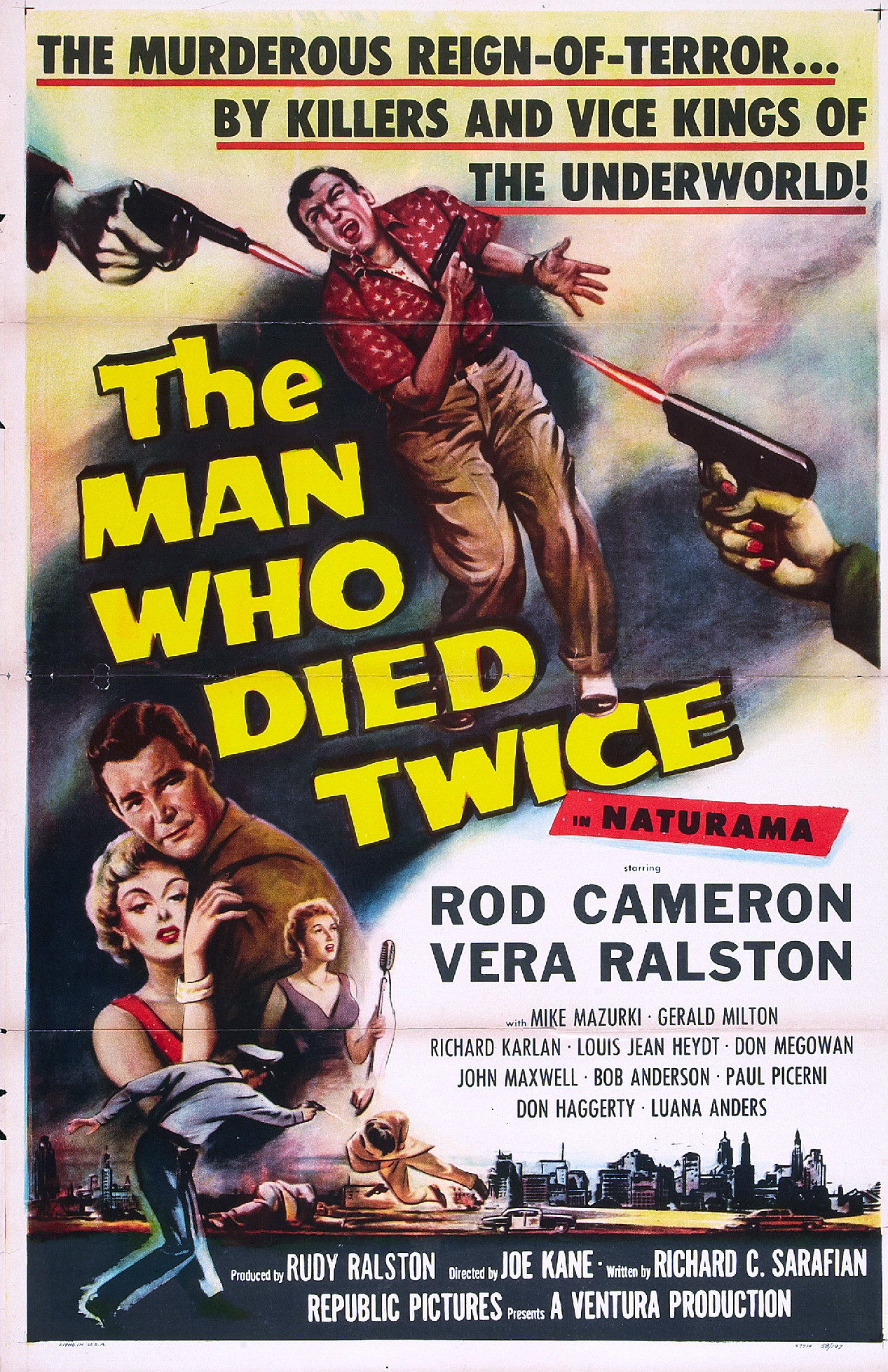 Poster for the 1958 film The Man Who Died Twice. There are no copyright marks. At bottom left is Litho in USA. At bottom right is 49914 58/197.